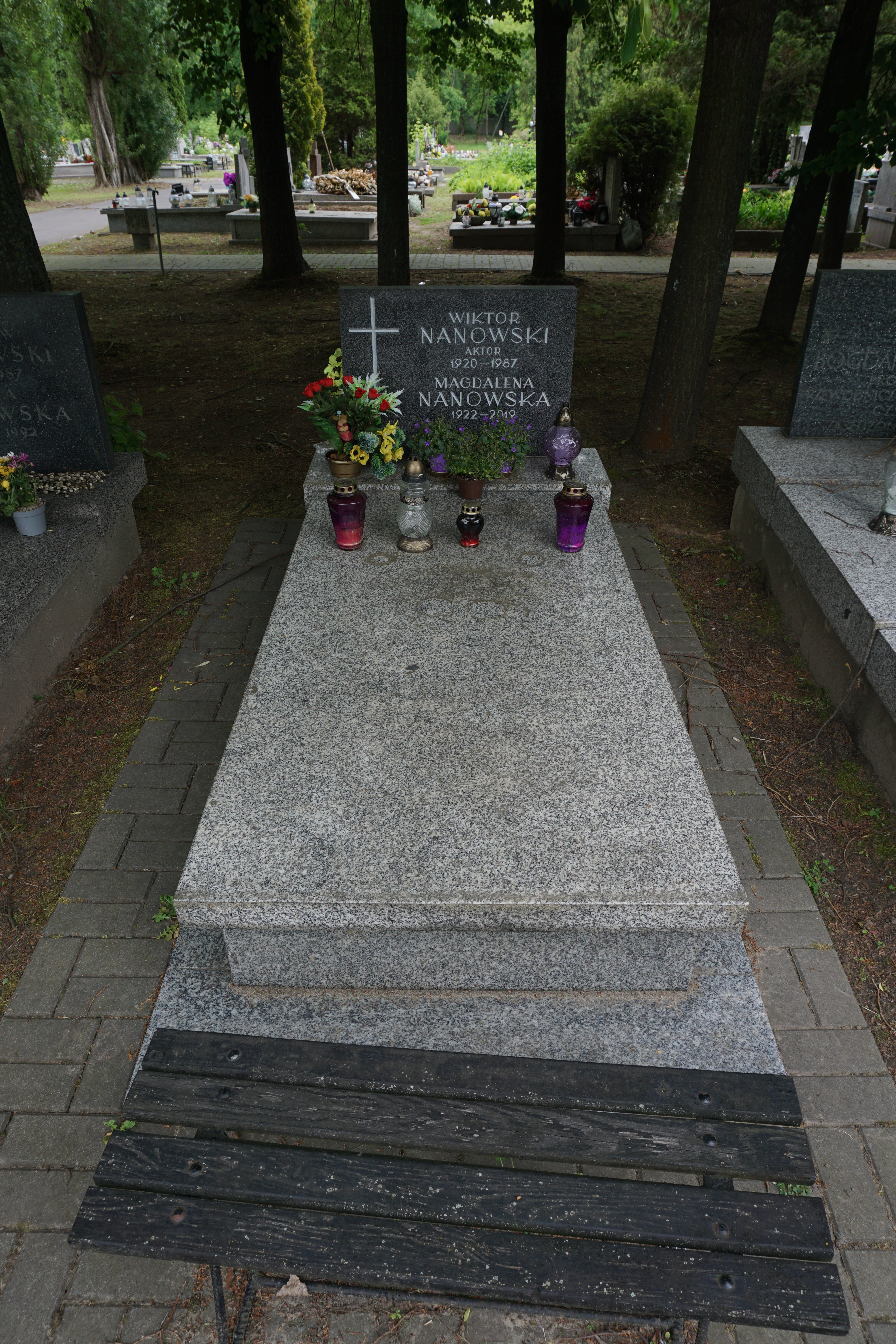 The grave of Wiktor Nanowski at the North Municipal Cemetery in Warsaw (section E-XVII-1, row 3, grave 4)